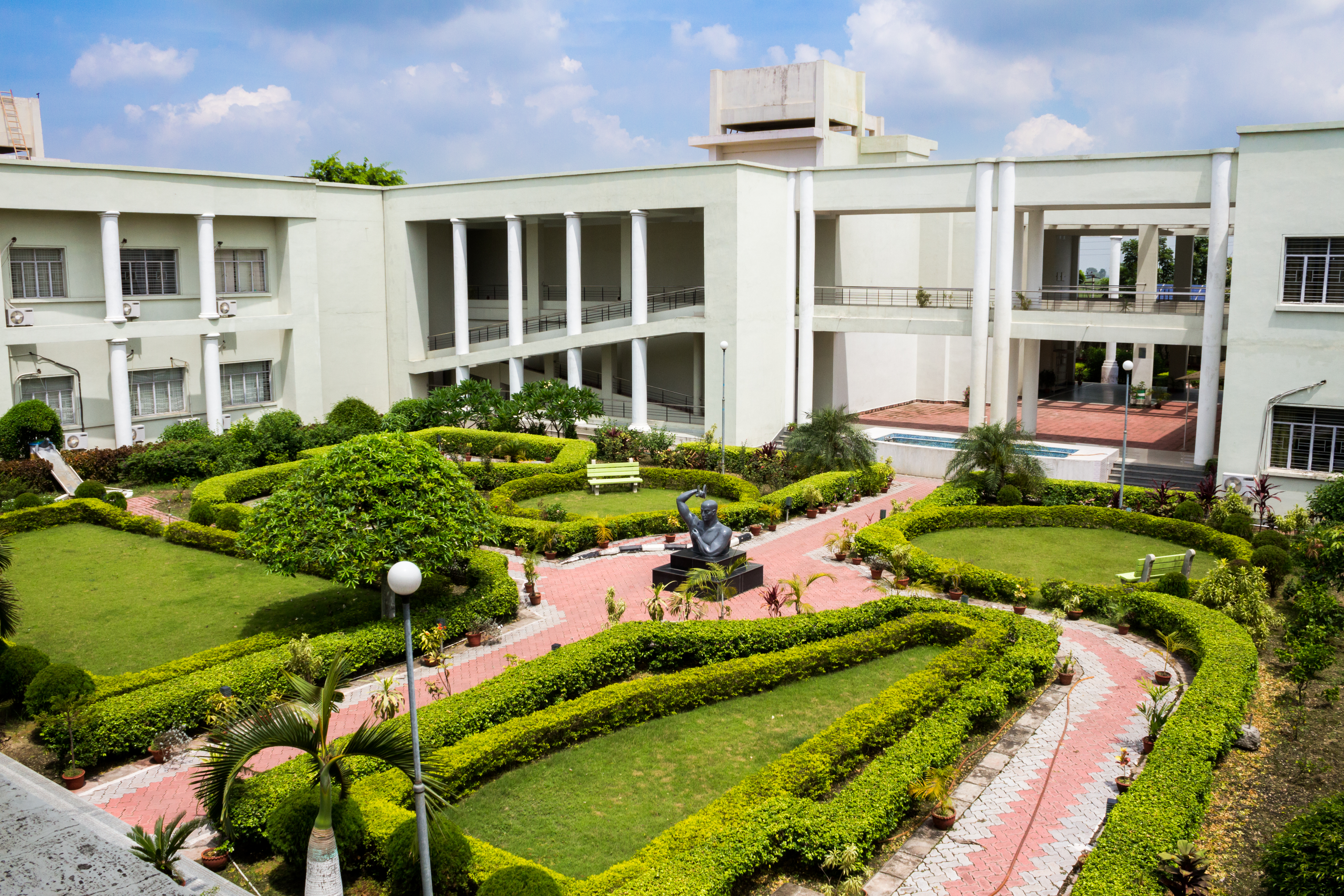 Teaching Block of MDI Murshidabad